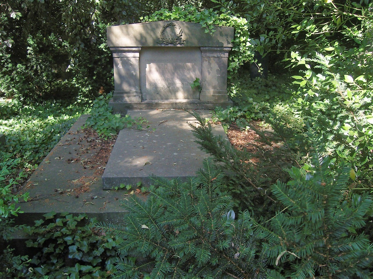 Family tomb Dr. Christian Heinrich Kindler (1762-1845), Mayor Lübeck, St. Lorenz-Cemetery Lübeck, Foto 2013.